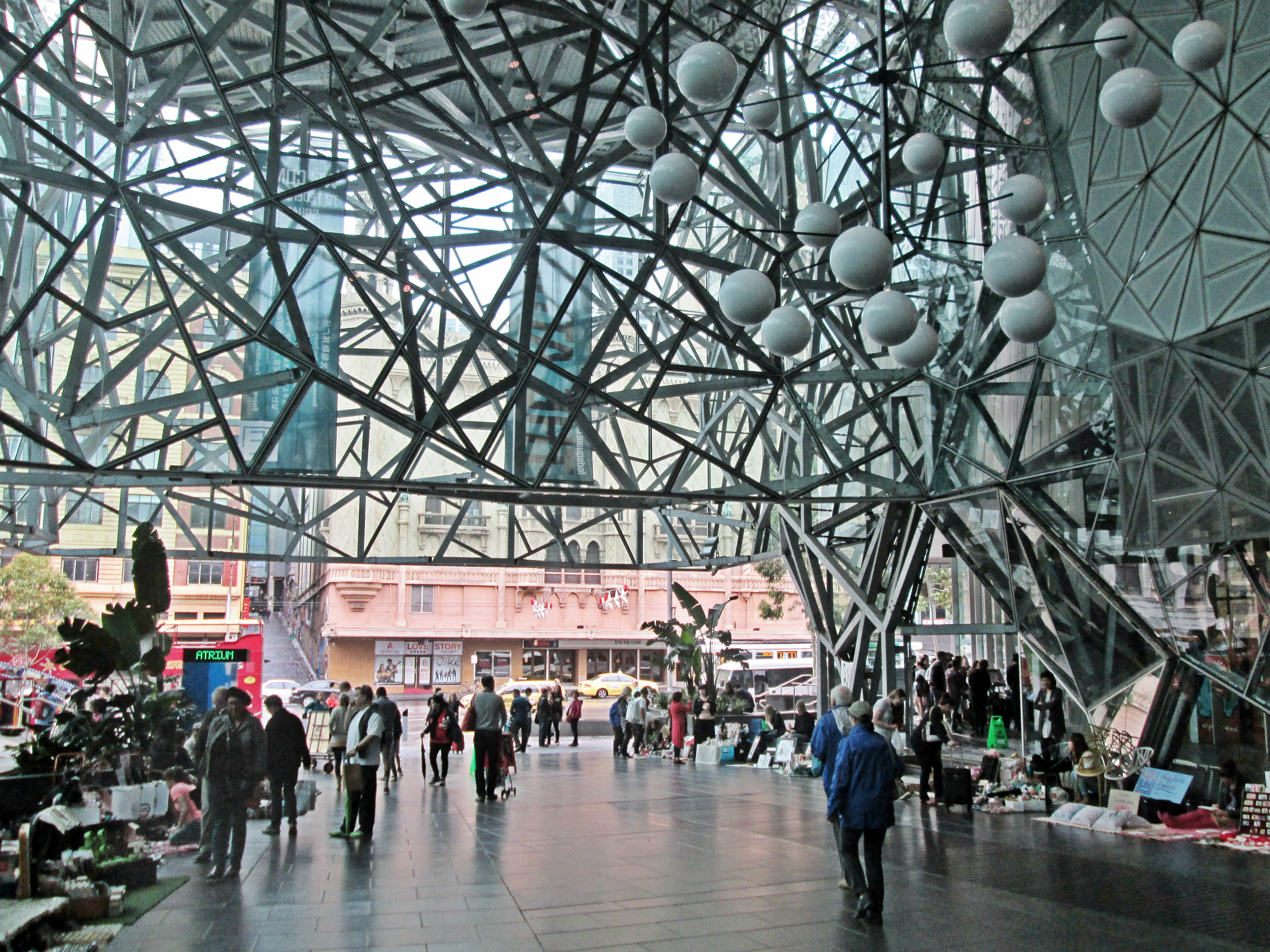 The Atrium, entrance to the Ian Potter Centre: NGV Australia, Melbourne